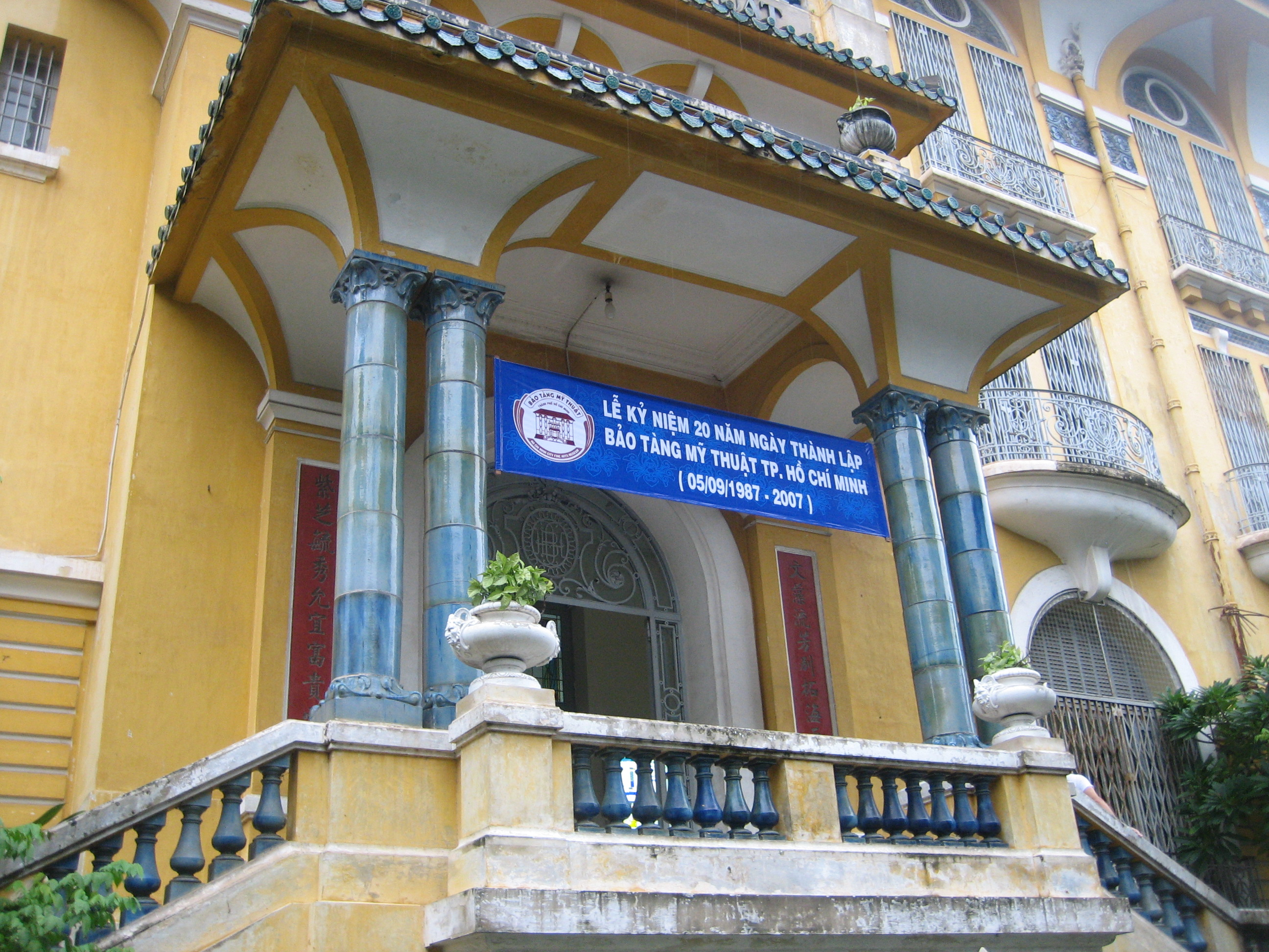 Museum of Fine Arts, Ho Chi Minh City.